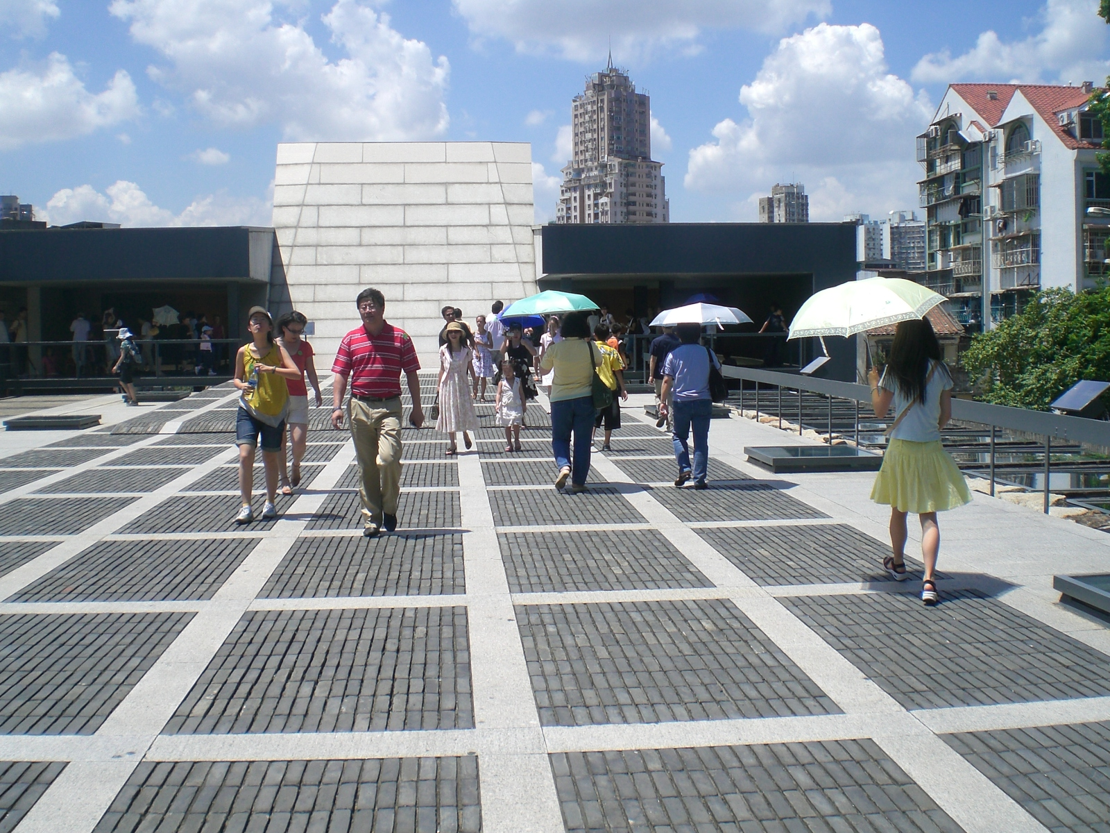 大三巴牌坊, Cathedral of Saint Paul in Macau and 天主教藝術博物館與墓室 O Museu de Arte Sacra e Cripta (Museum of Sacred Art). Photo author= Mo707